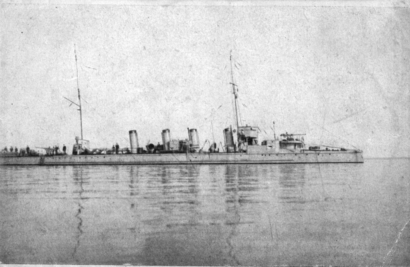 Finnish torpedo boat S3